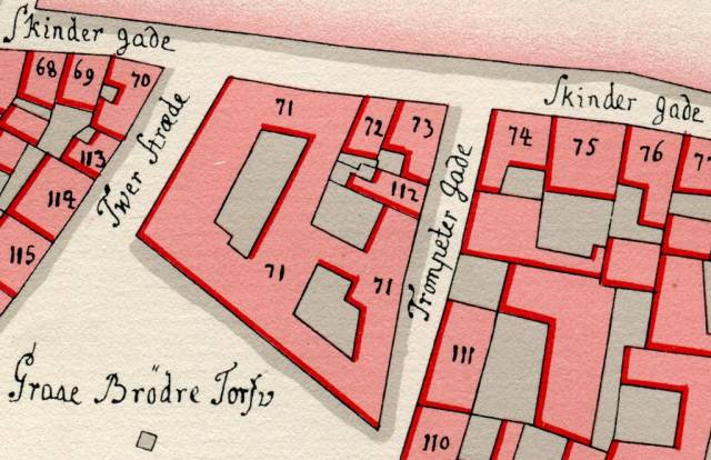 Rrompetergade on Gedde's district map of Copenhagen, Denmark. Now part of Niels Hemmingsens Gade.